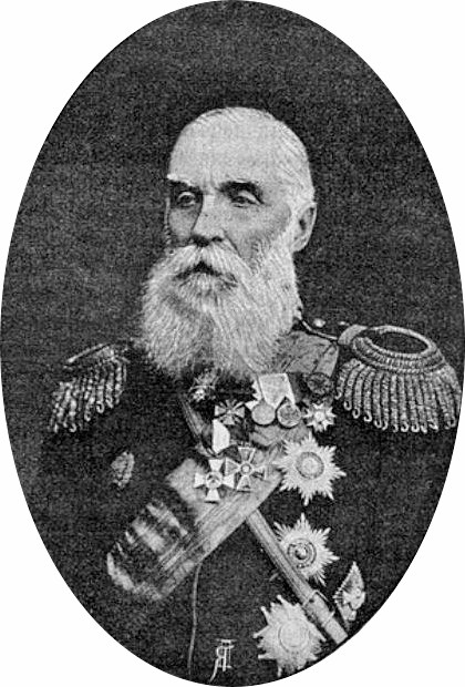 Taube, Maksim Antonovich.